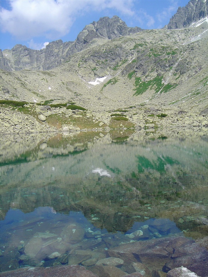 Batizovsky stit peak over Batizovske pleso lake — in the High Tatra Mountains, Tatra National Park, northern Slovakia.